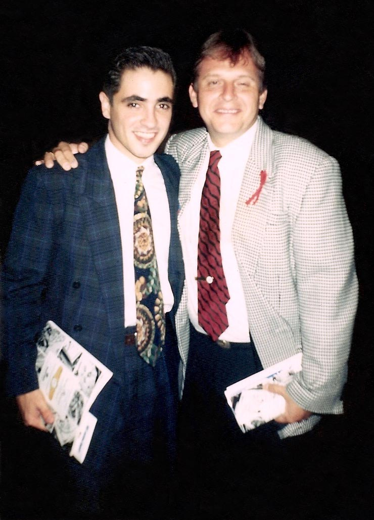 Pedro Zamora and I (COPYRIGHT HOLDER) in 1993